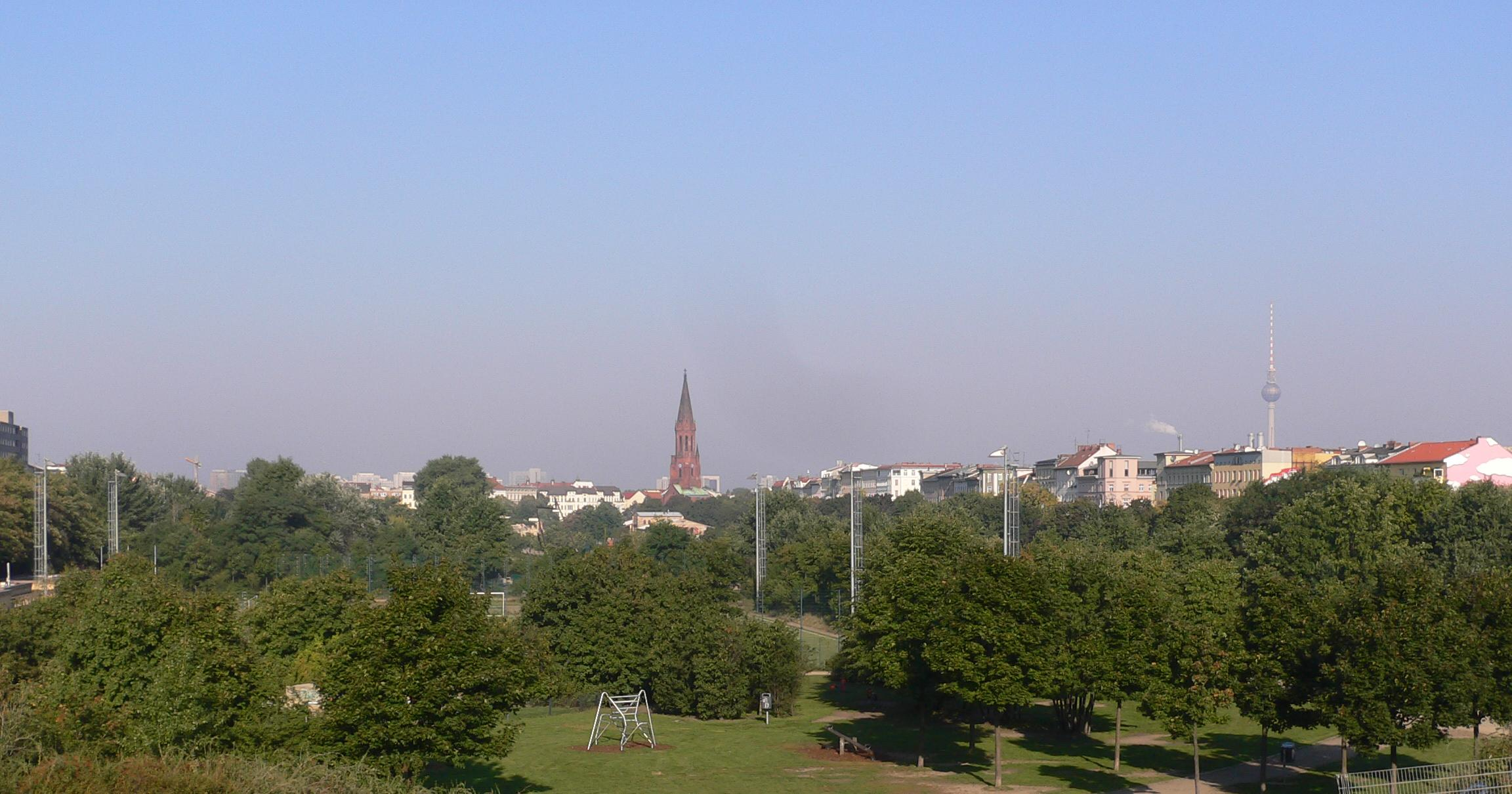 Görlitzer Park - Germany, view from south-east; in the background the Emmaus-Kirche and the Berliner Fernsehturm